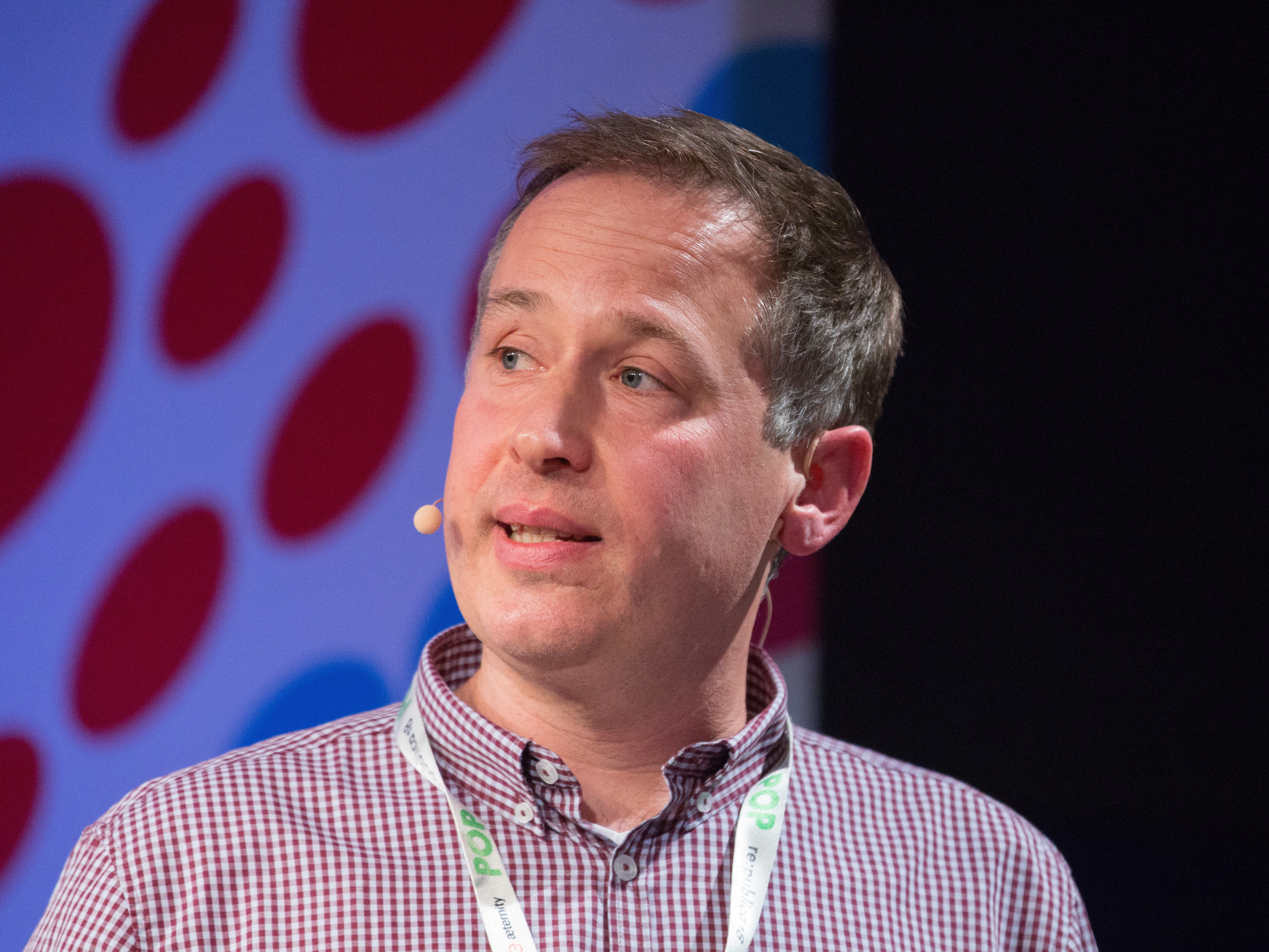 Patrick Gensing at the Media Convention Berlin 2018 / :Re:publica 18